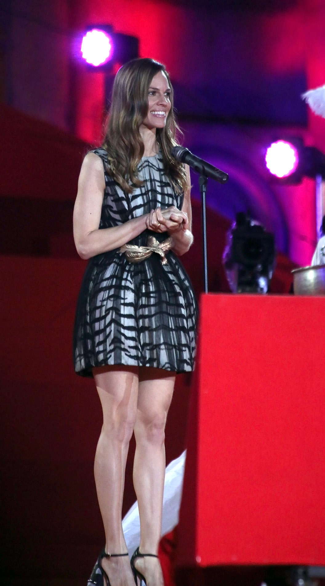 Hilary Swank presenting the Crystal of Hope Award for The Girl Effect, opening show of Life Ball 2013 at the city hall of Vienna, Vienna, Austria.